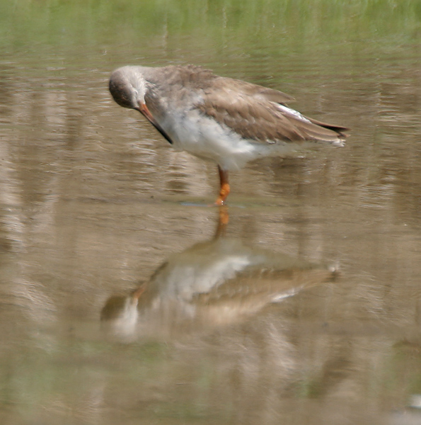 Common Redshank (Tringa totanus) at Keoladeo National Park, Bharatpur, Rajasthan, India.